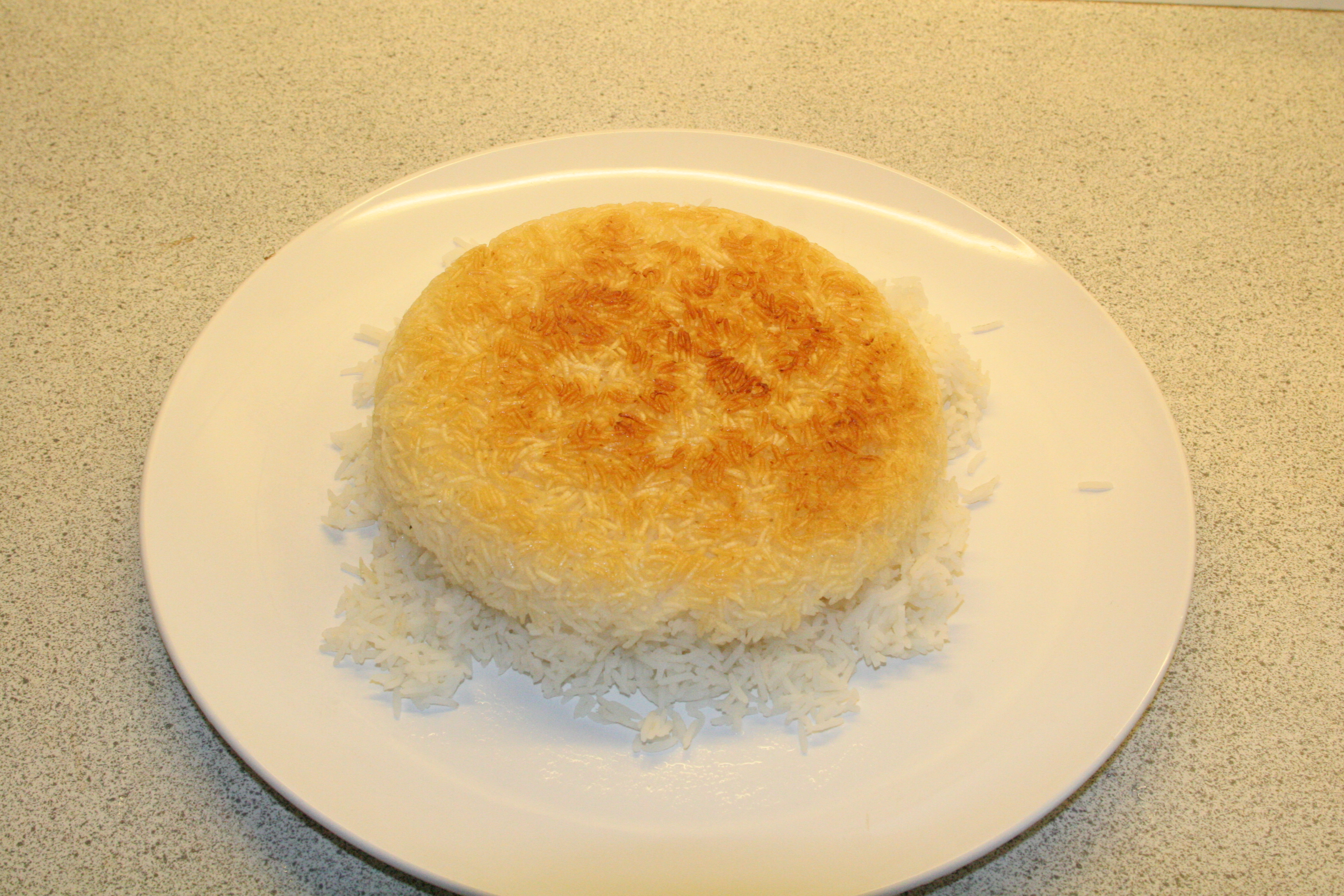 White rice with tahdig (Iranian)